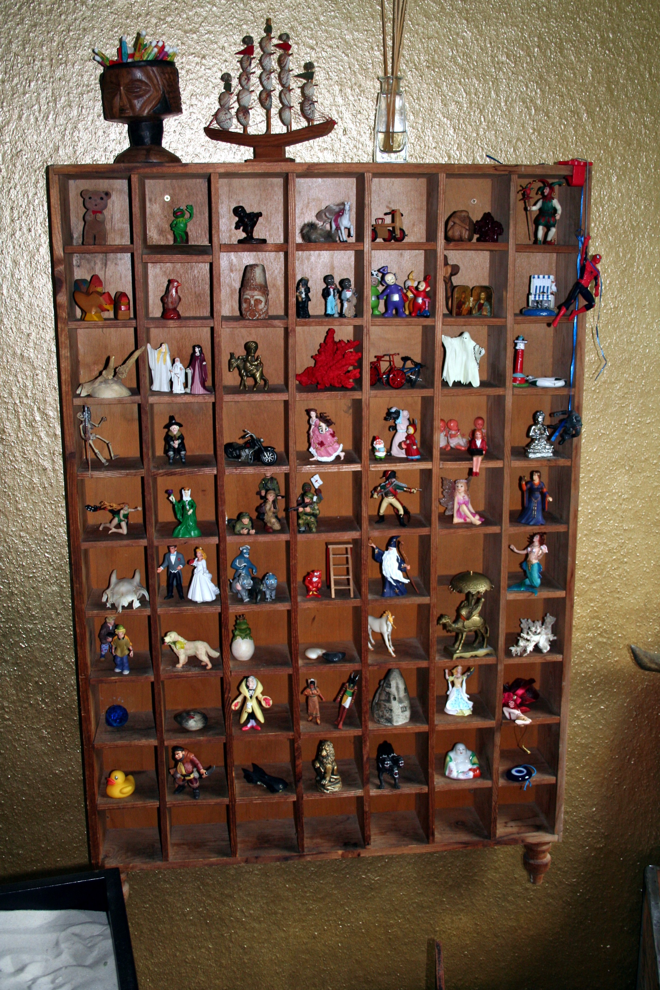 Sand Play Therapy / Dora M. Kalff